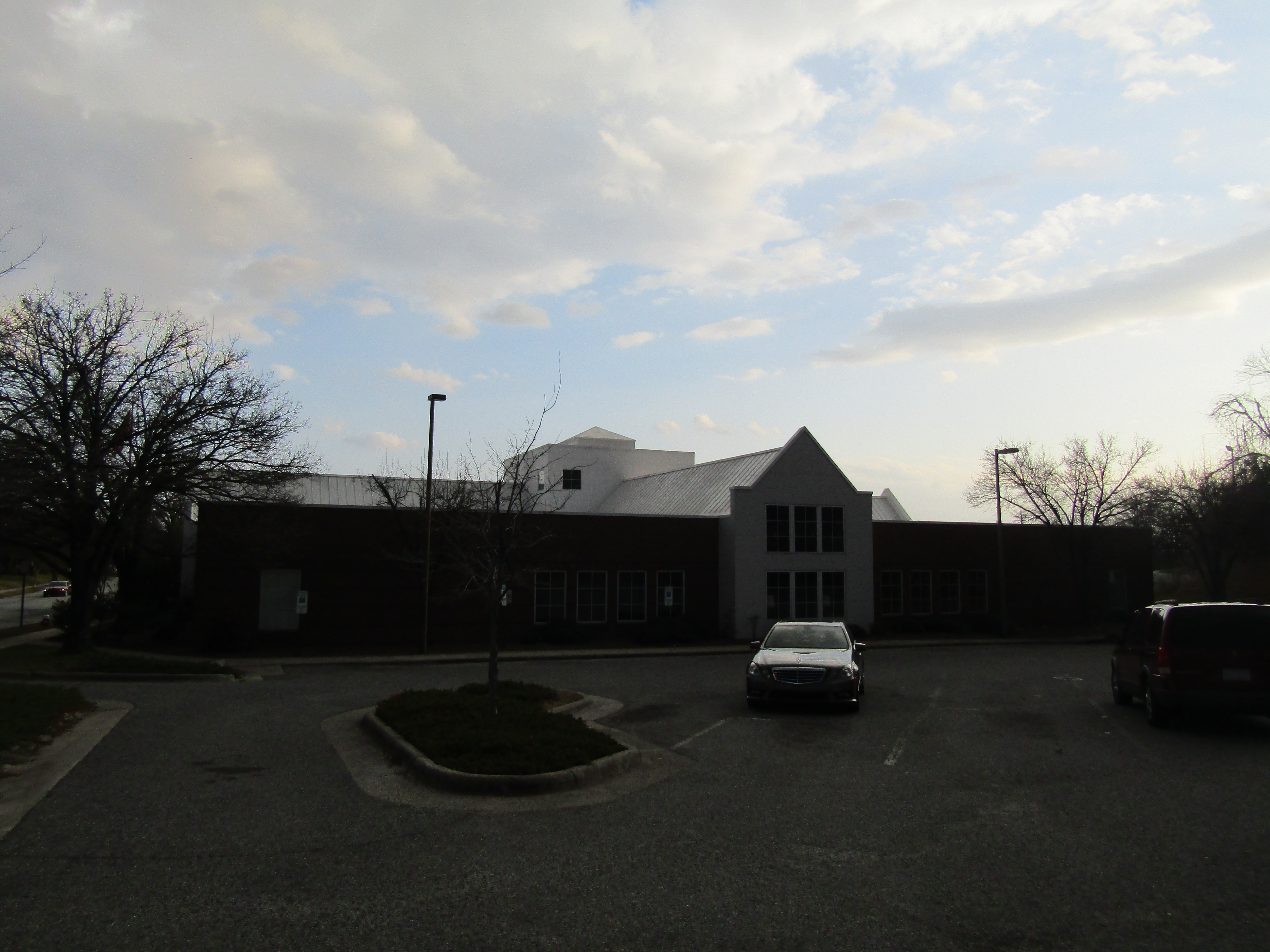 Thomasville Public Library in Thomasville, North Carolina.